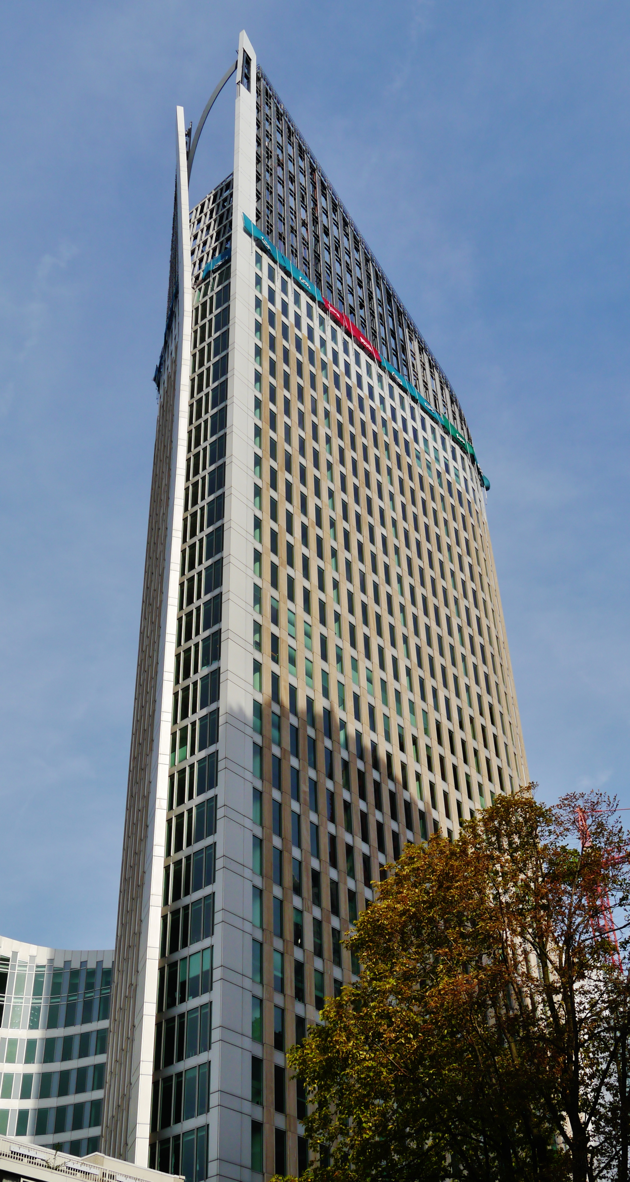 Court Tower, The Hague, Province of South Holland, Netherlands